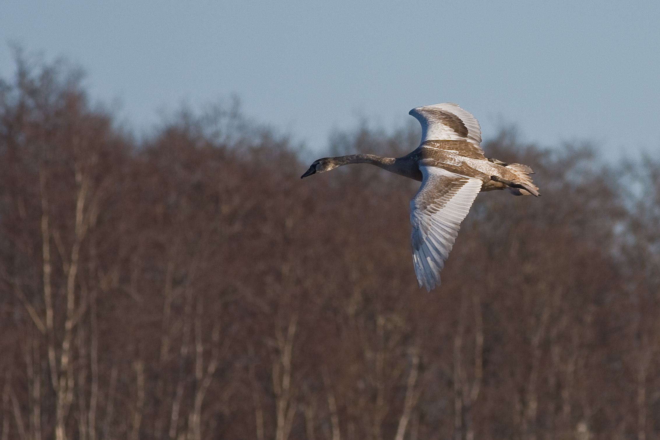 Cygnus olor (Mute Swan), juvenile in flight. Photo taken near Vanhankaupunginlahti, Helsinki, Finland. The location is listed in Ramsar "List of Wetlands of International Importance". This bird is just about to land. Note the dark and somewhat curious colours of this adolscent bird, which will later turn bright white with orange beak.